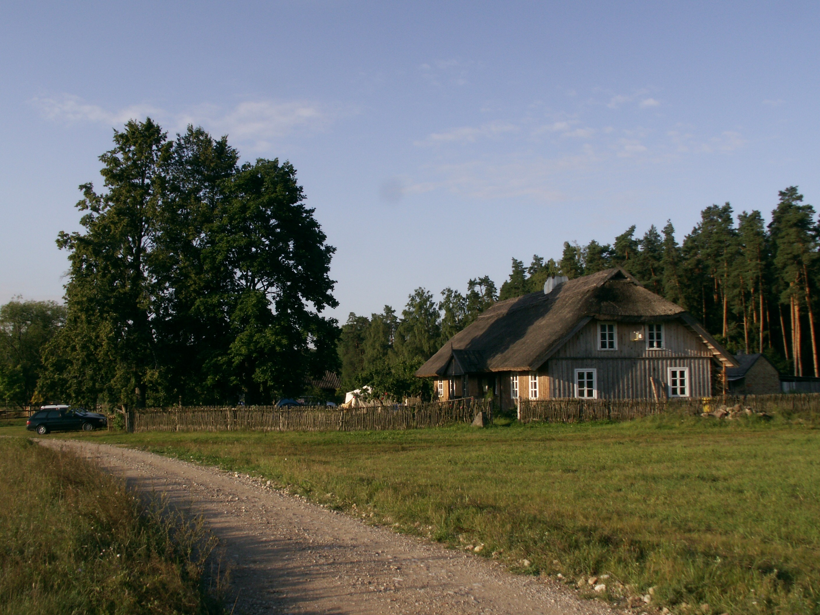 Jautmalkė, Kelmė district, Kurtuvėnai regional park, Lithuania